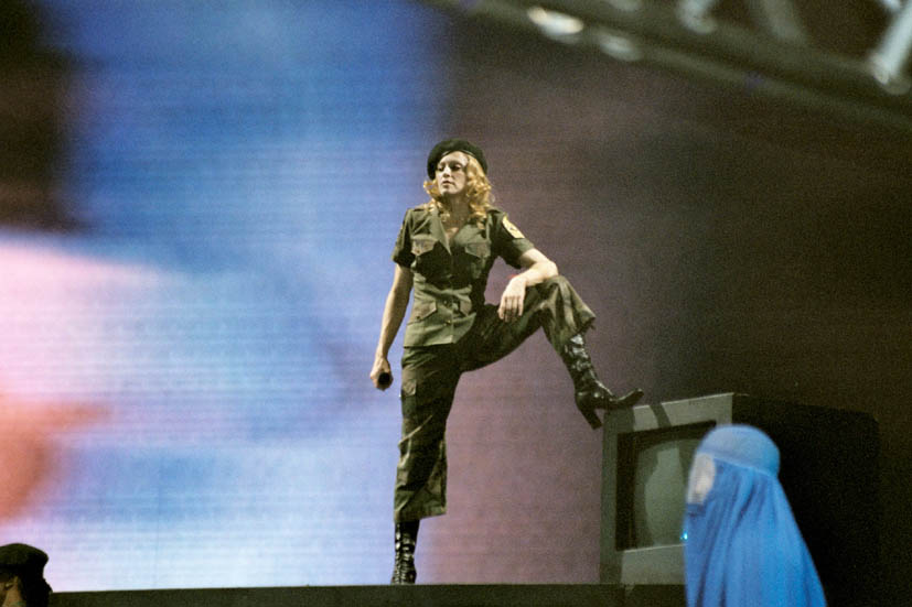 madonna